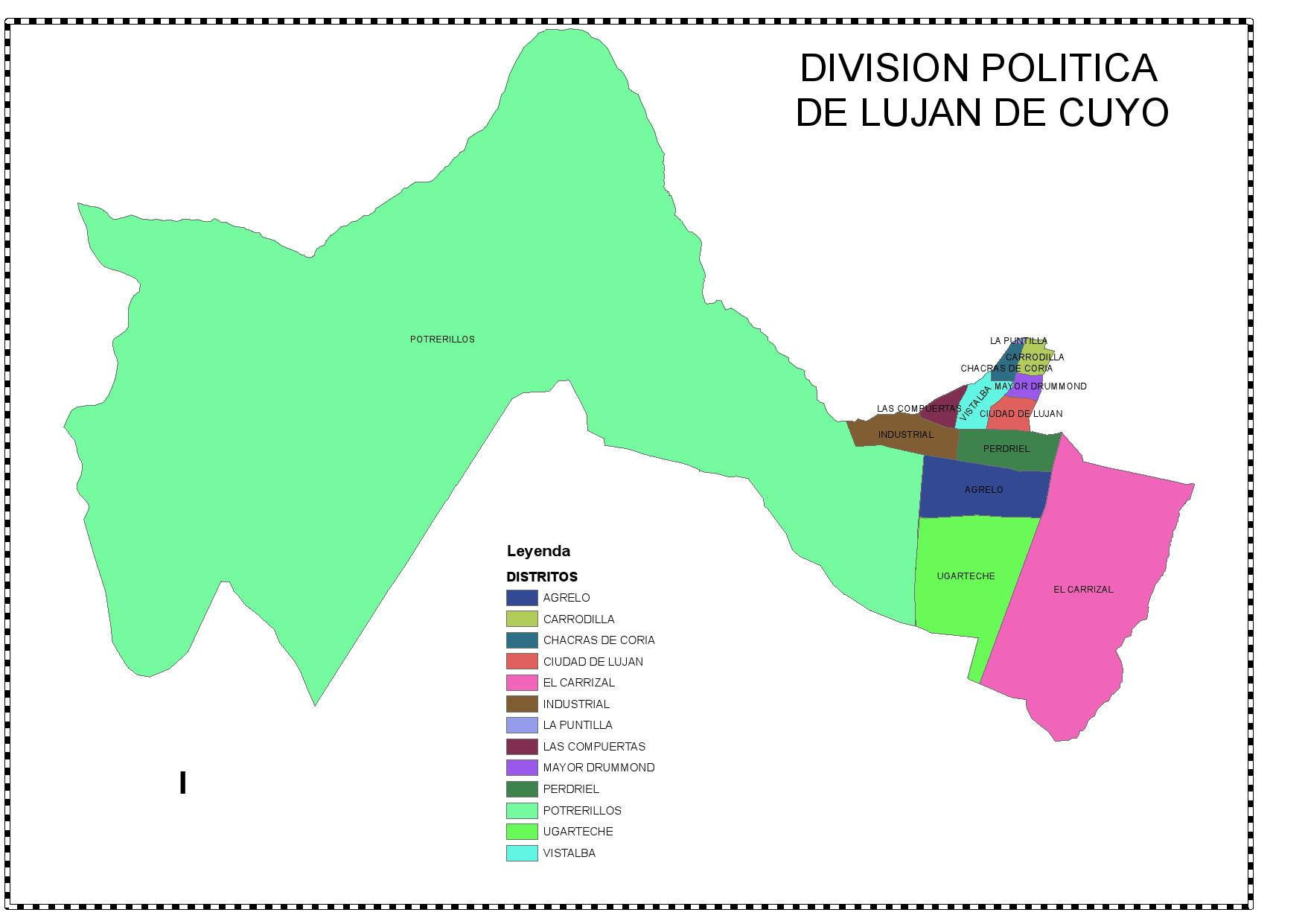 DIVISION POLITICA DE LUJAN